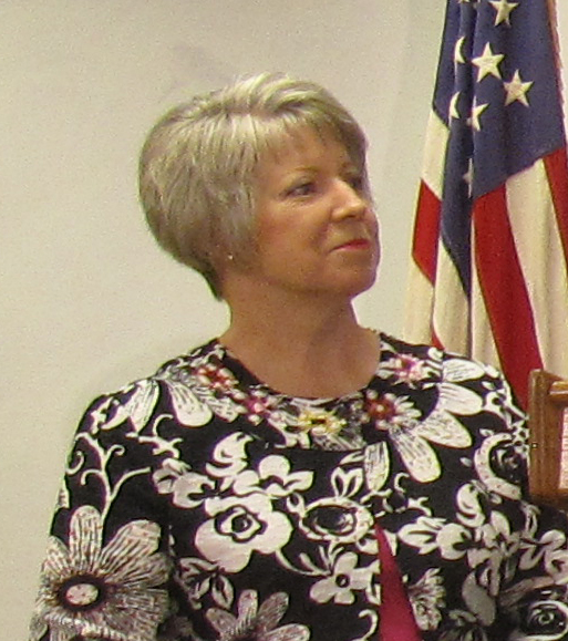 Former Iowa First Lady Christine Branstad in June 2010.